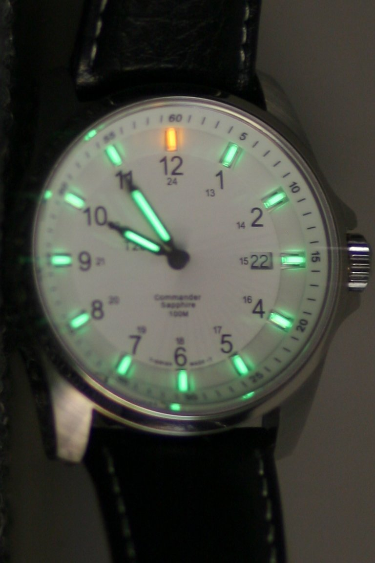 Swiss Military Watch Commander model with tritium-illuminated face